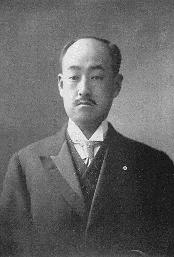 Kinyoshi Sanjo